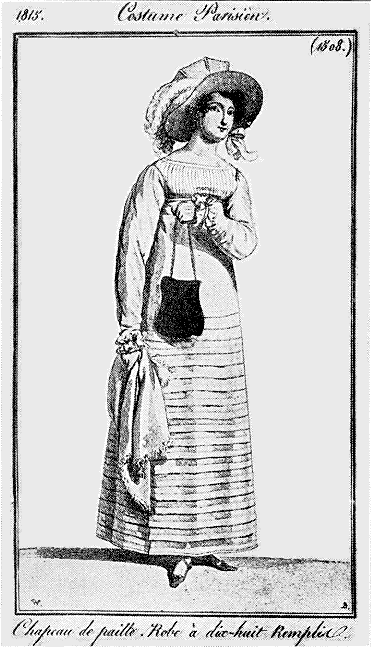 "Chapeau de Paille. Robe à dix-huit Remplis." from Costume Parisien, 1815. A dress with 18 tucks worn by French royalists to show their loyalty to Louis XVIII and the restored Bourbon dynasty. (Partisans of Napoleon wore violets...)